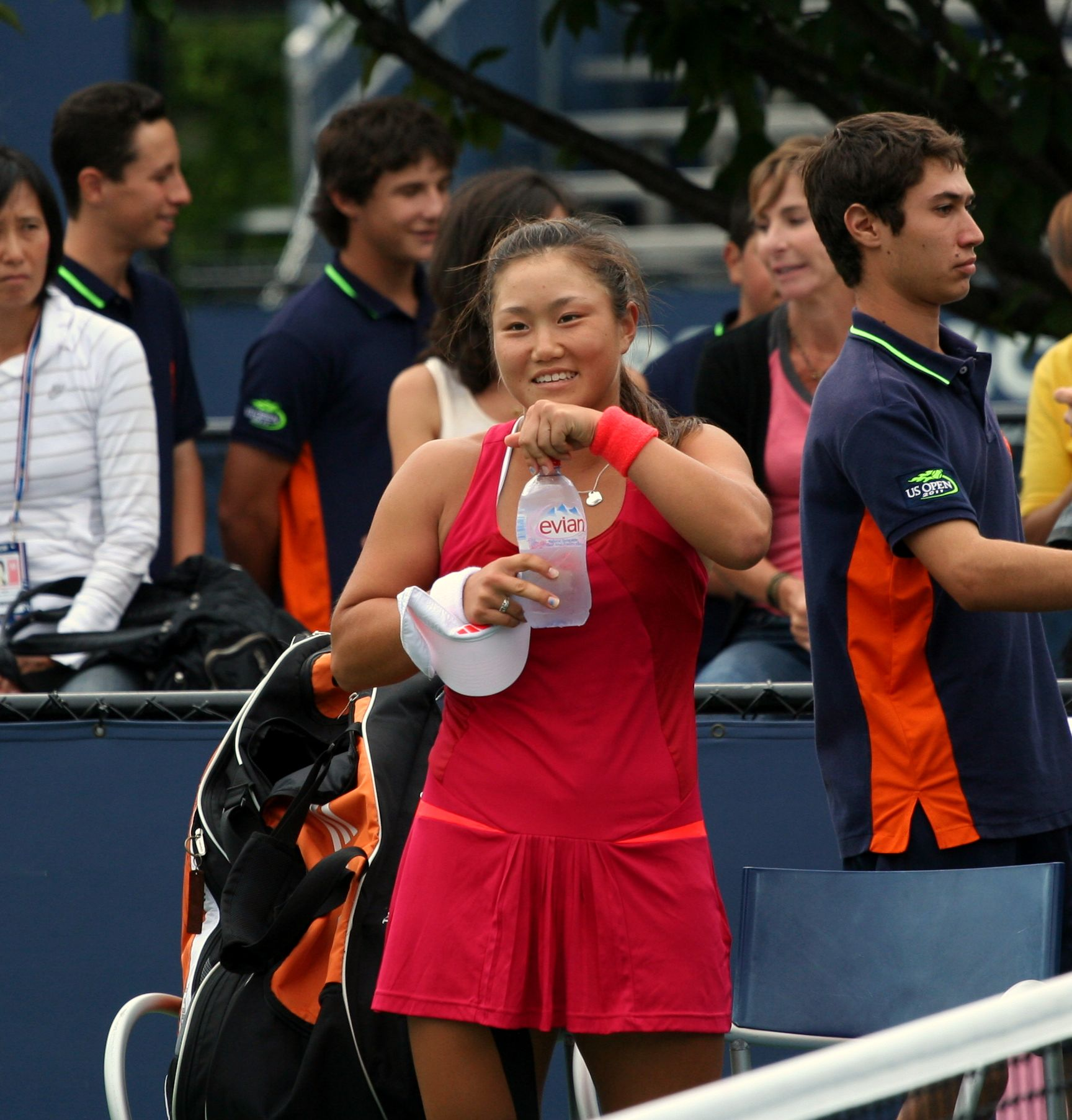 U.S. Open Girls' Final Sunday, Sept. 11, 2011